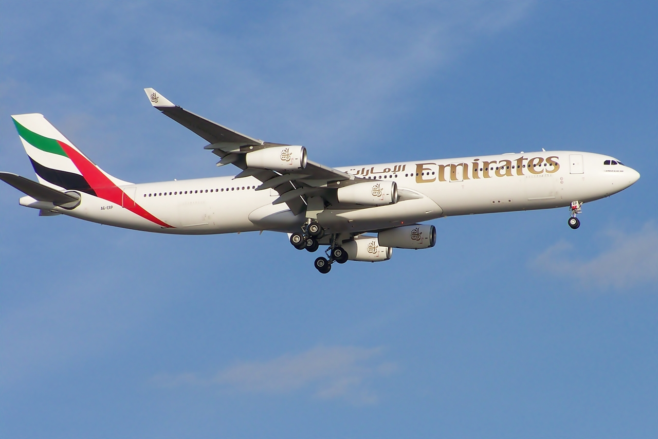 Emirates Airlines first A340-300 service into Glasgow Airport